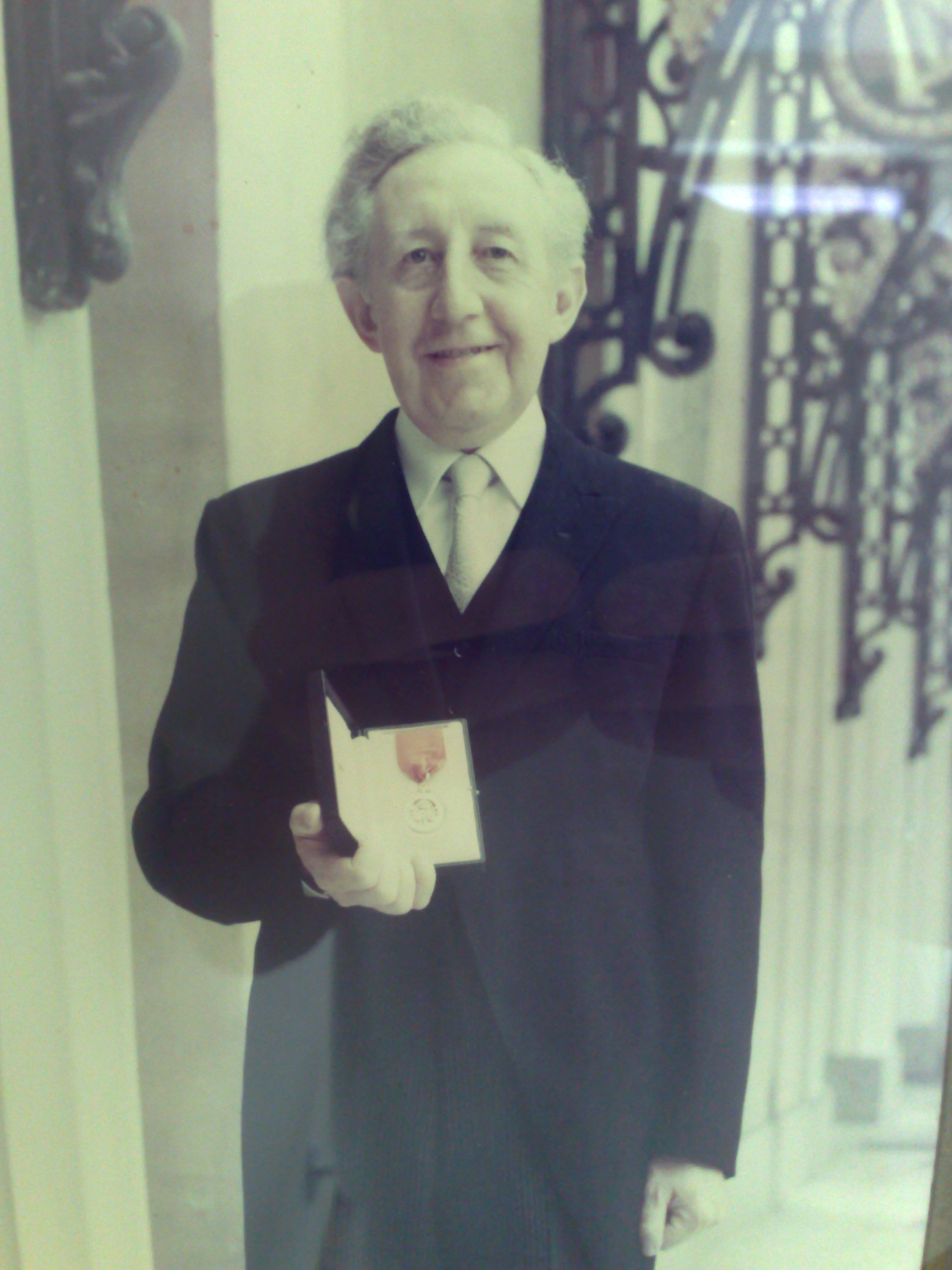 A picture of Fred Brooman CB